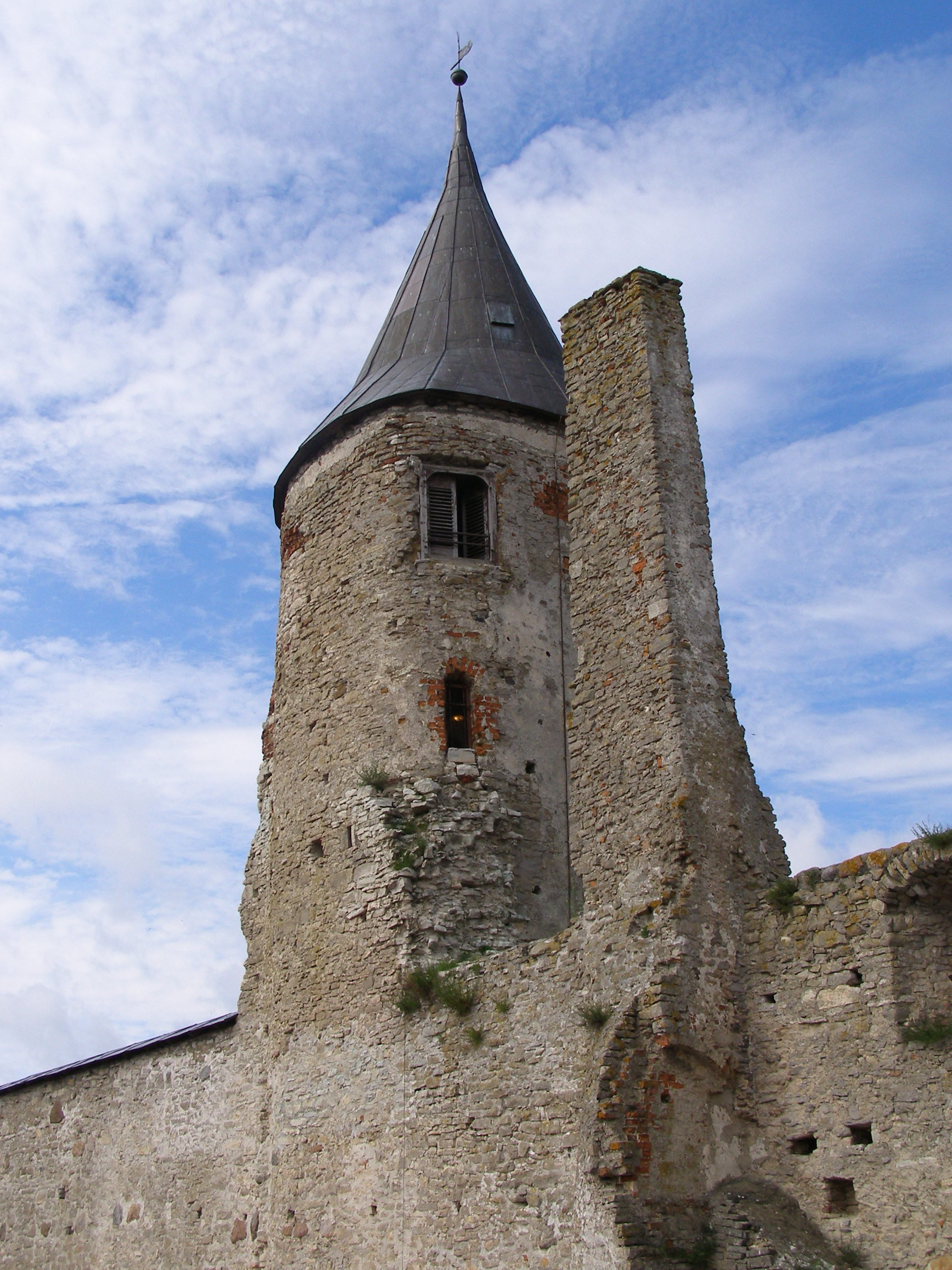 Watchtower of Haapsalu Castle, Haapsalu, Estonia. My own photo, summer 2007.